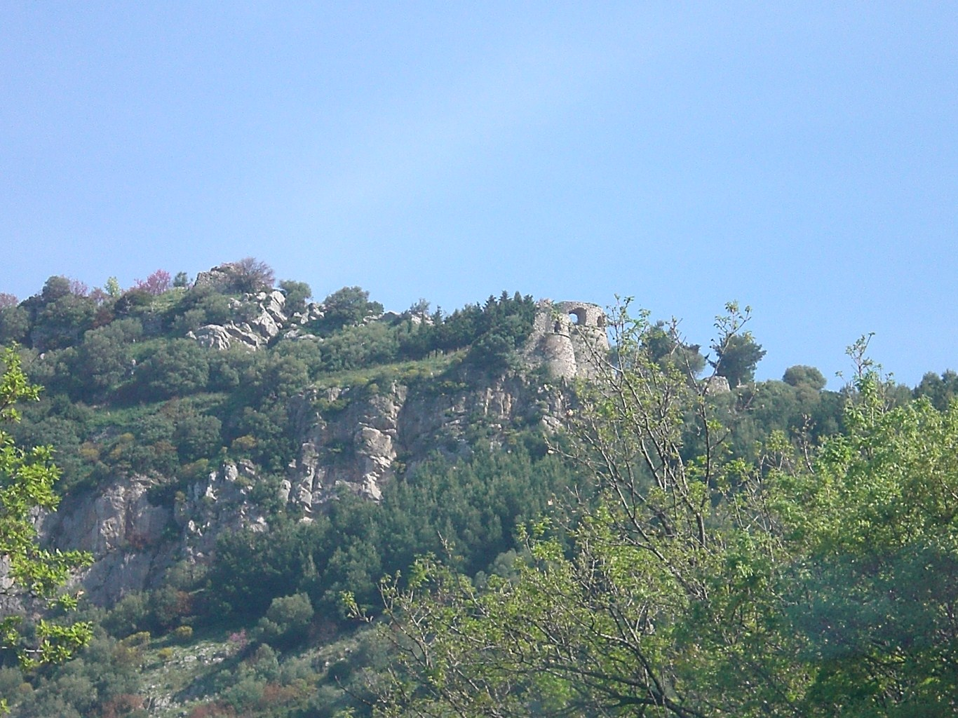 Castle of Capaccio Vecchio